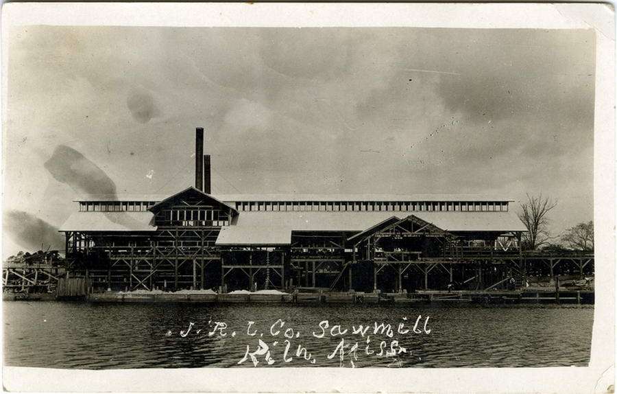 Jordan_River_Lumber_Company_Sawmill,_Kiln